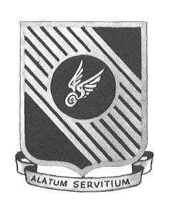 Emblem of the 10th Transport (Troop Carrier) Group